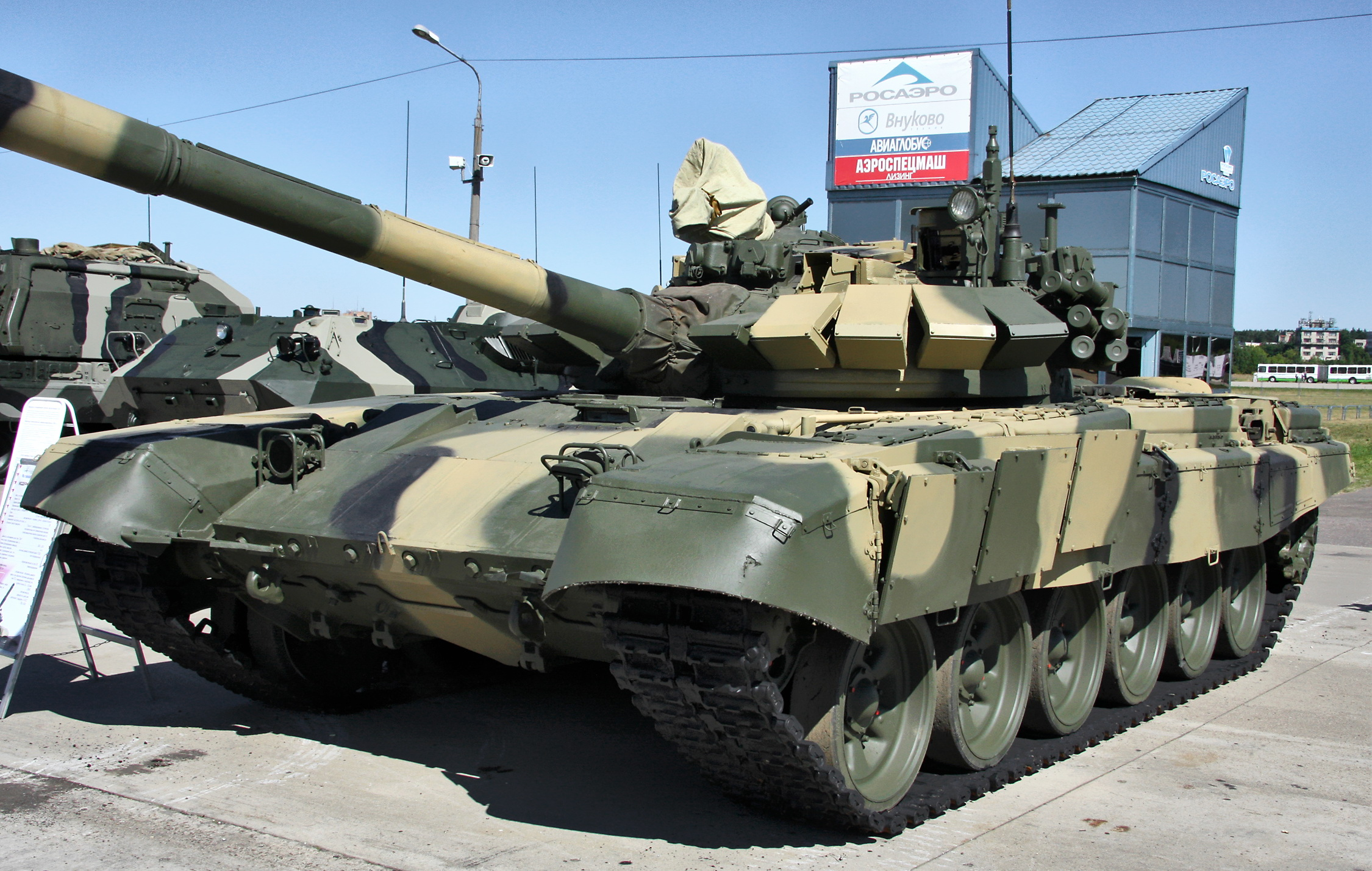 Upgraded T-72